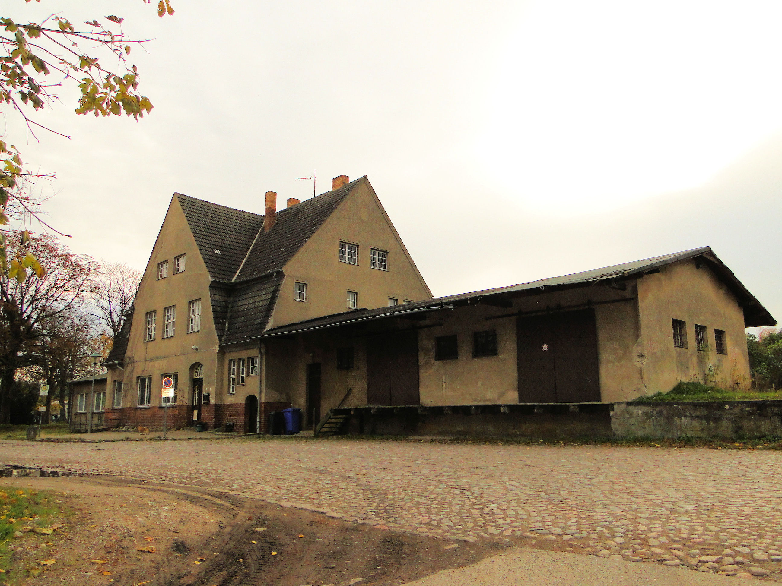 Train station in Feldberg, district Mecklenburg-Strelitz, Mecklenburg-Vorpommern, Germany